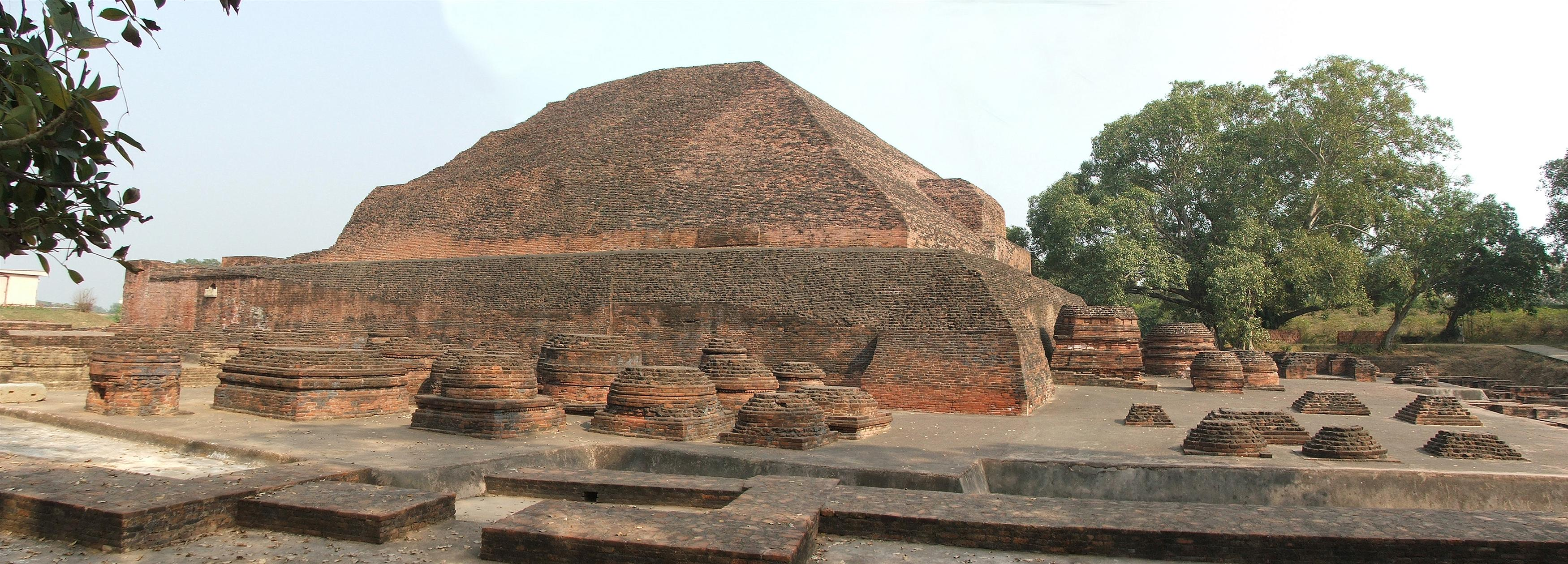 Stupa of Sariputta's relics in Nalanda University, Bihar, India